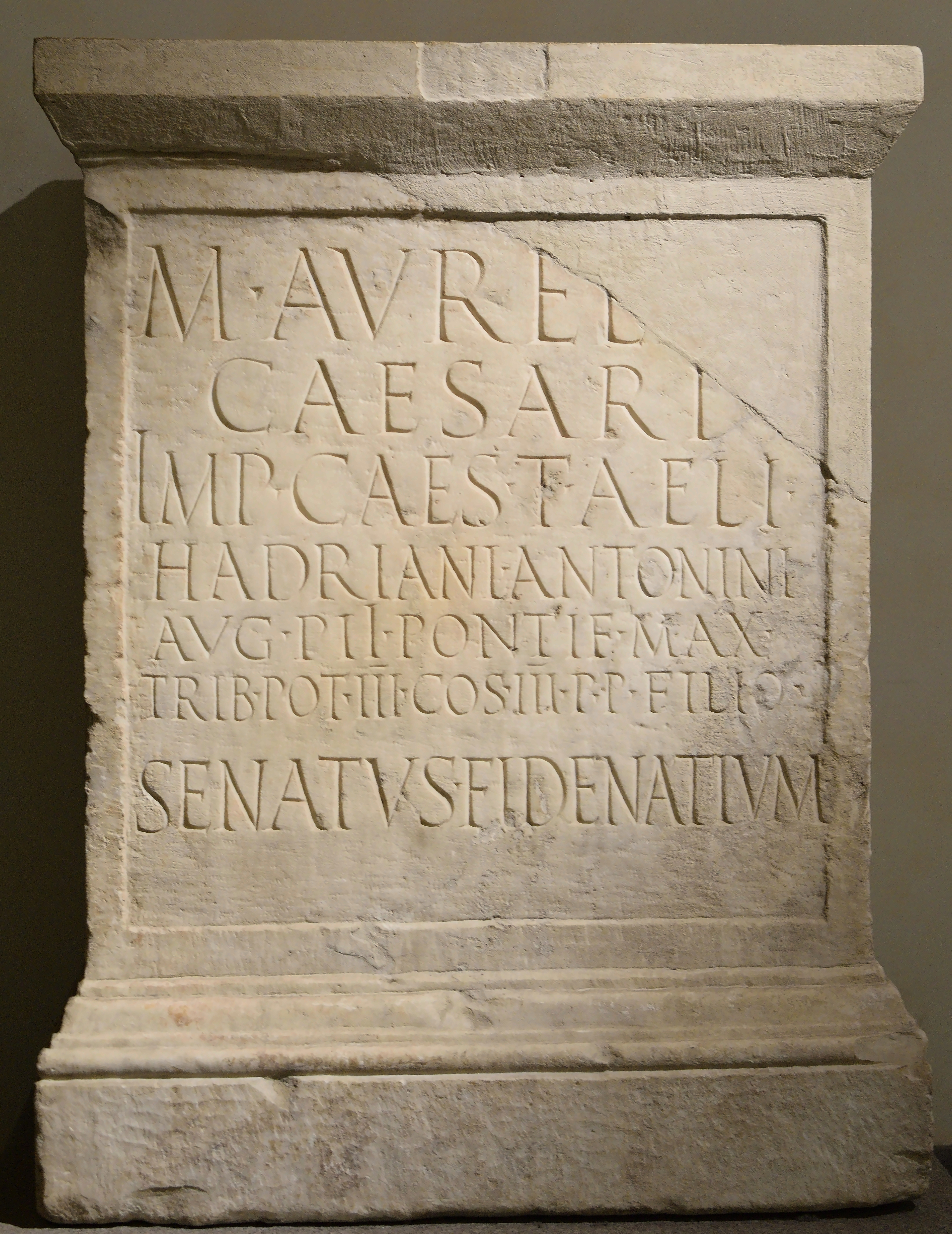 A base is dedicated to Marcus Aurelius, who was not yet empoeror, by the senate of Fidene. The title of Caesar indicates his nomination as successor to his adopted father Antoninus Pius (140 AD).